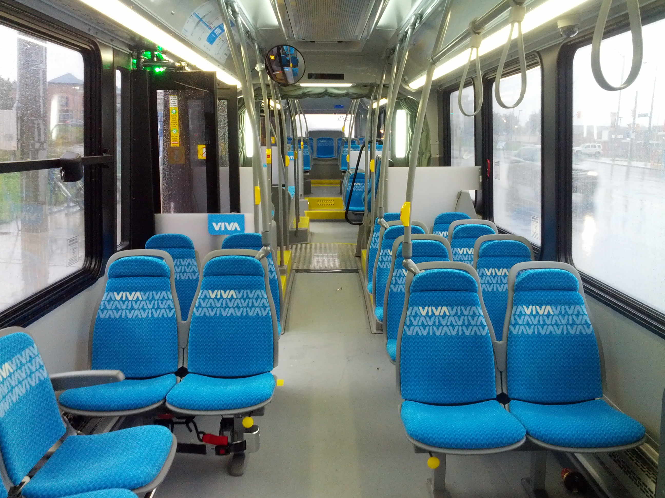 York Region Transit #1375 inner